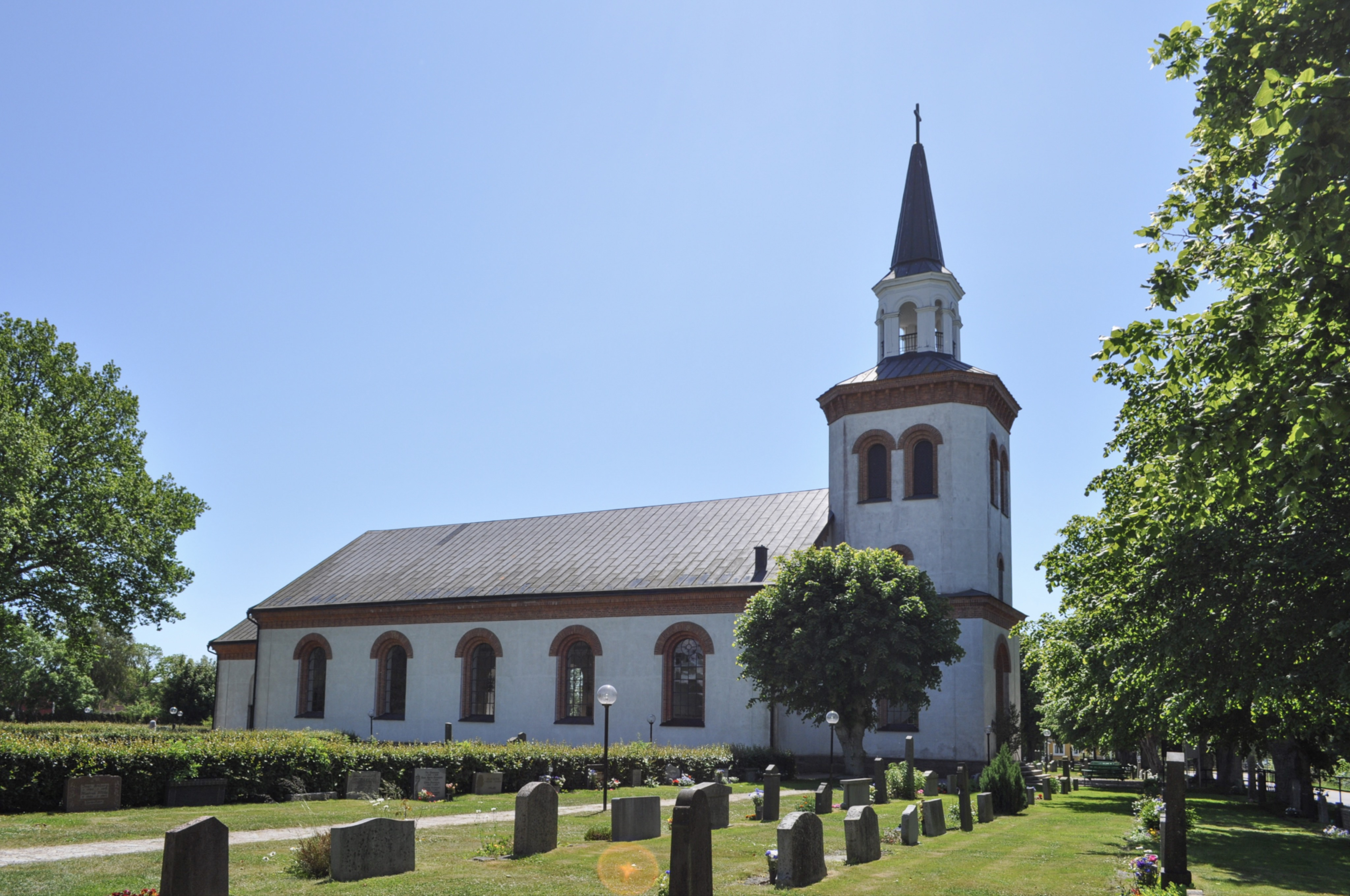 Torhamns kyrka - Torhamns church.